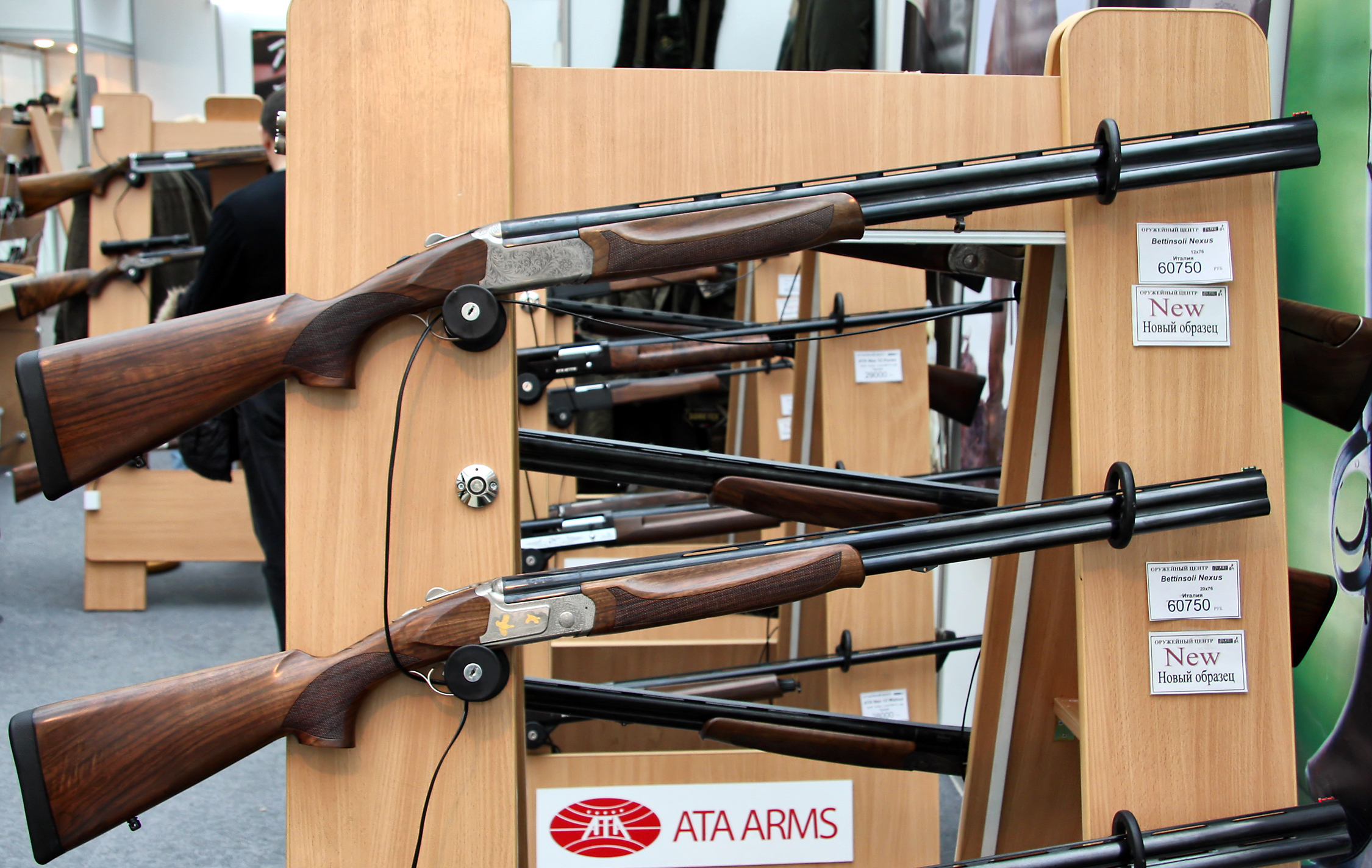 Bettinsoli Nexus